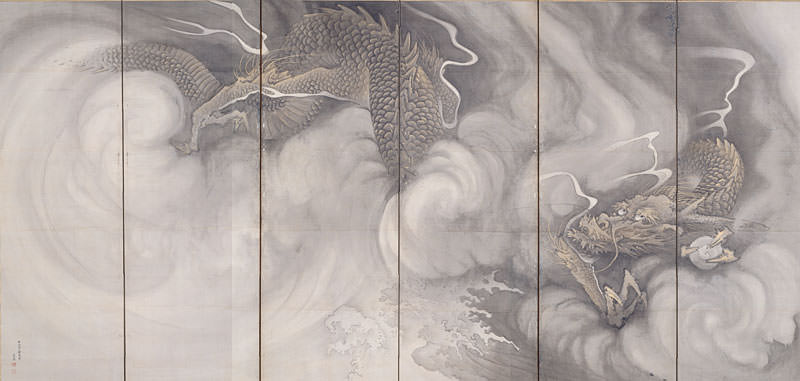 Dragon in Clouds, byobu by Maruyama Okyo